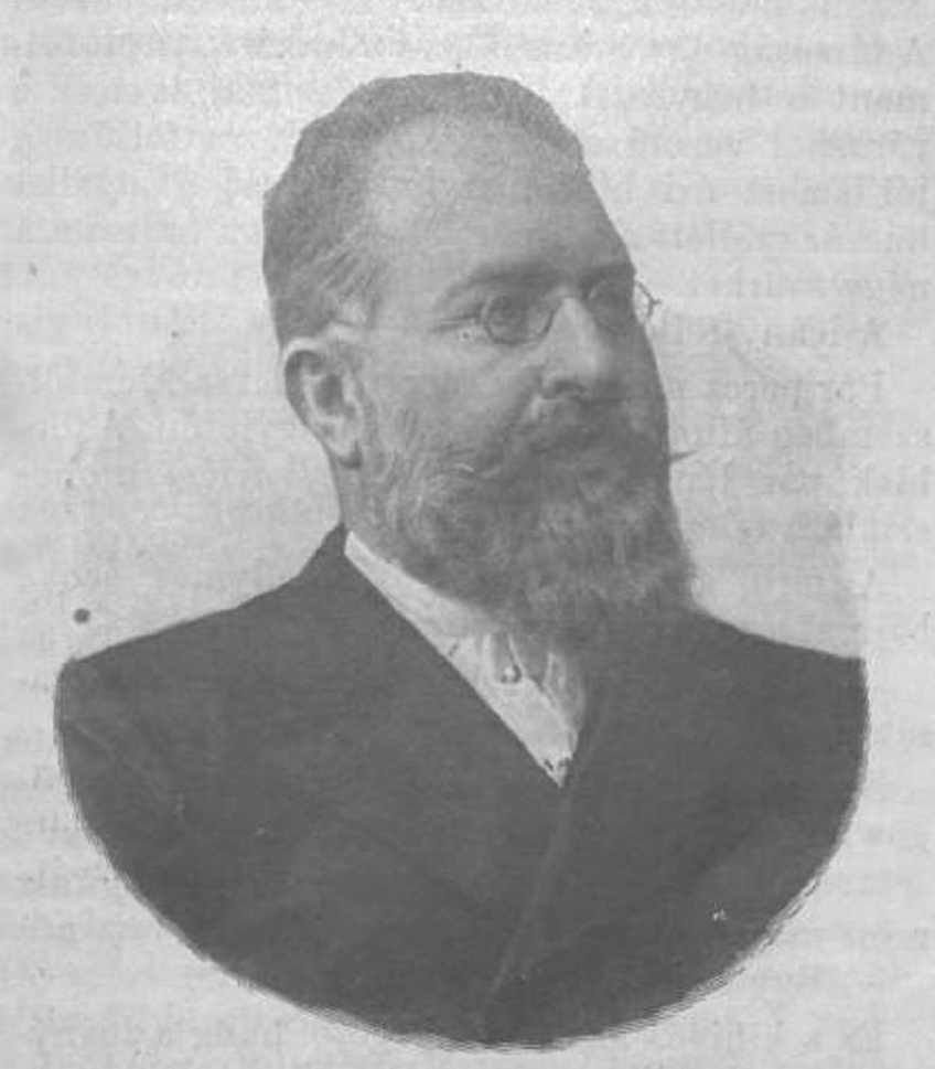 József Kőrösy